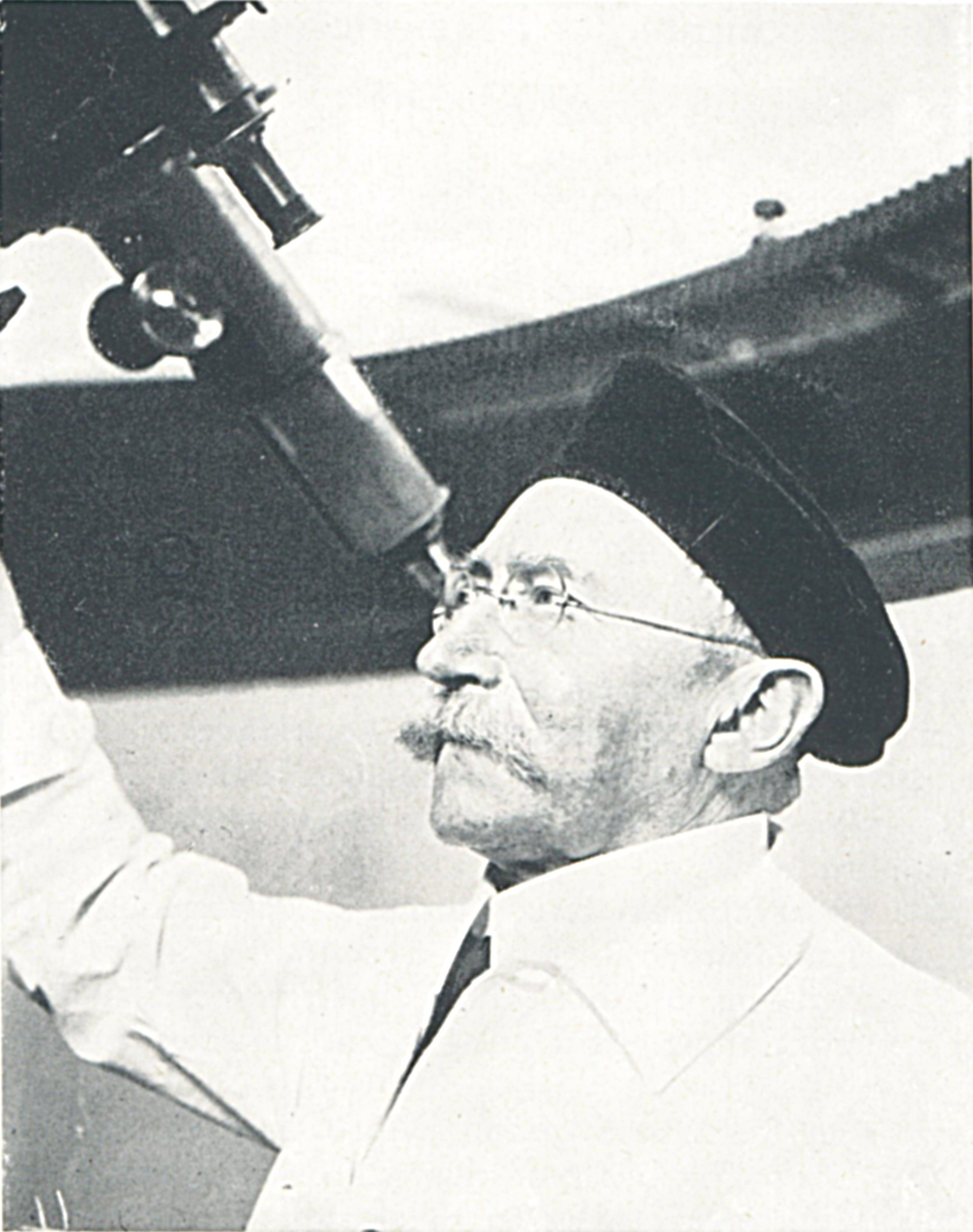 Professor Doctor Karl Stoeckl, Physicist at the PTH Regensburg and founder of the public observatory Regensburg